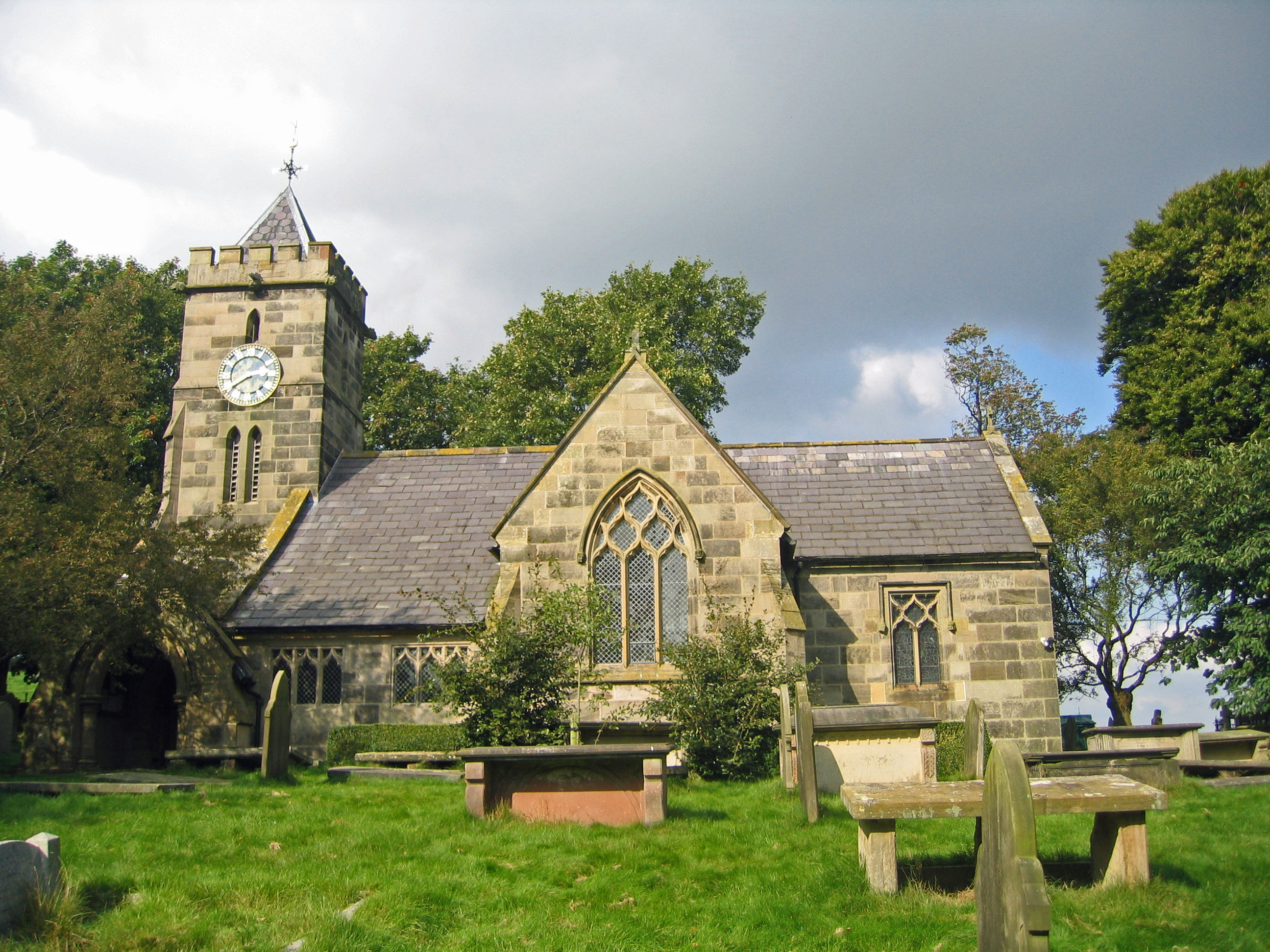 St Peter's parish church, Delamere, Cheshire, seen from the south